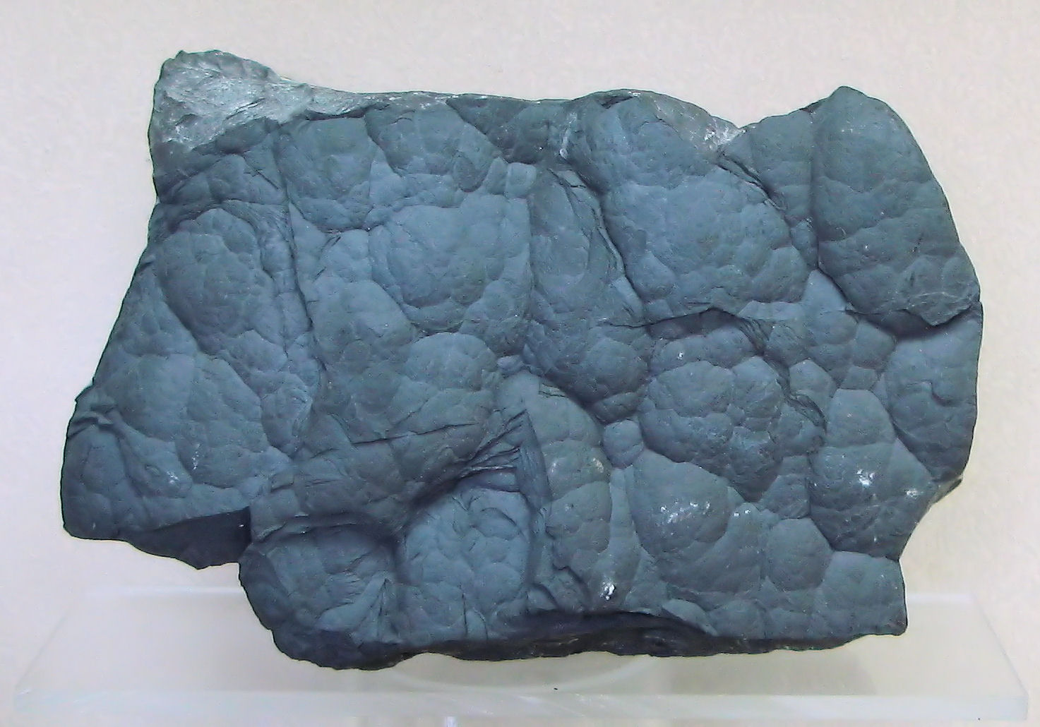 nativ Arsenic from St. Andreasberg, Harz - made in "Mineralogisches Museum der Universität Bonn"